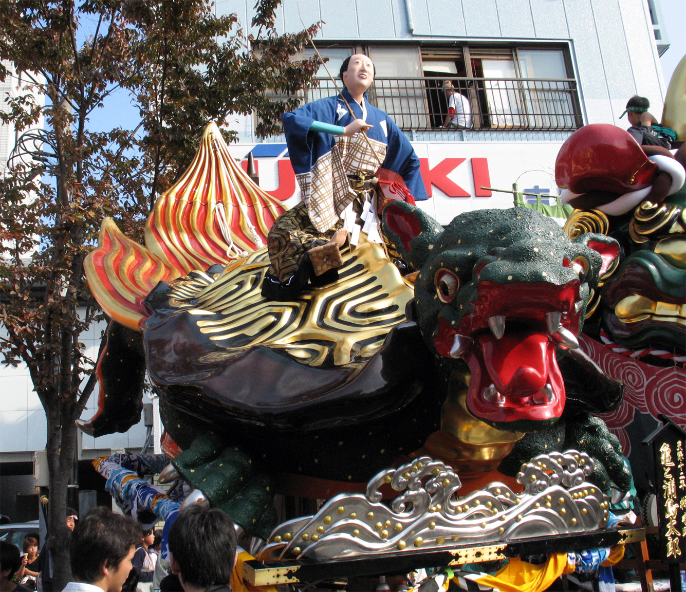 Karatsu Kunchi's Kame to Urashima Taro (亀と浦島太郎) float — constructed in 1841.